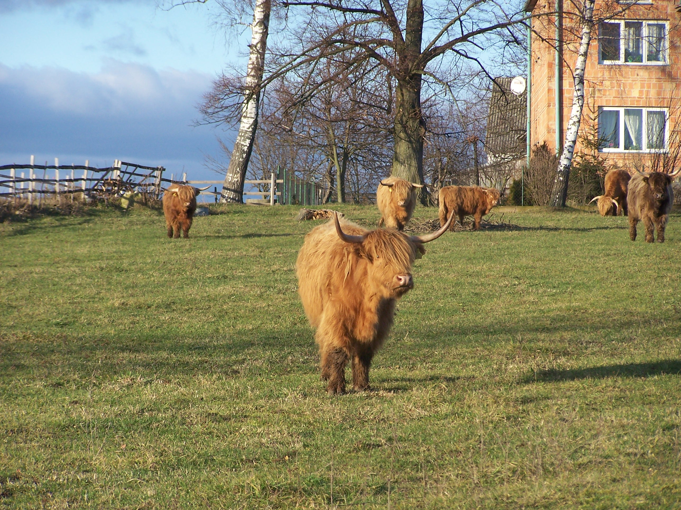 Highland cattle in Poland (Ćwikły-Krajewo, Podlasie voivodship)